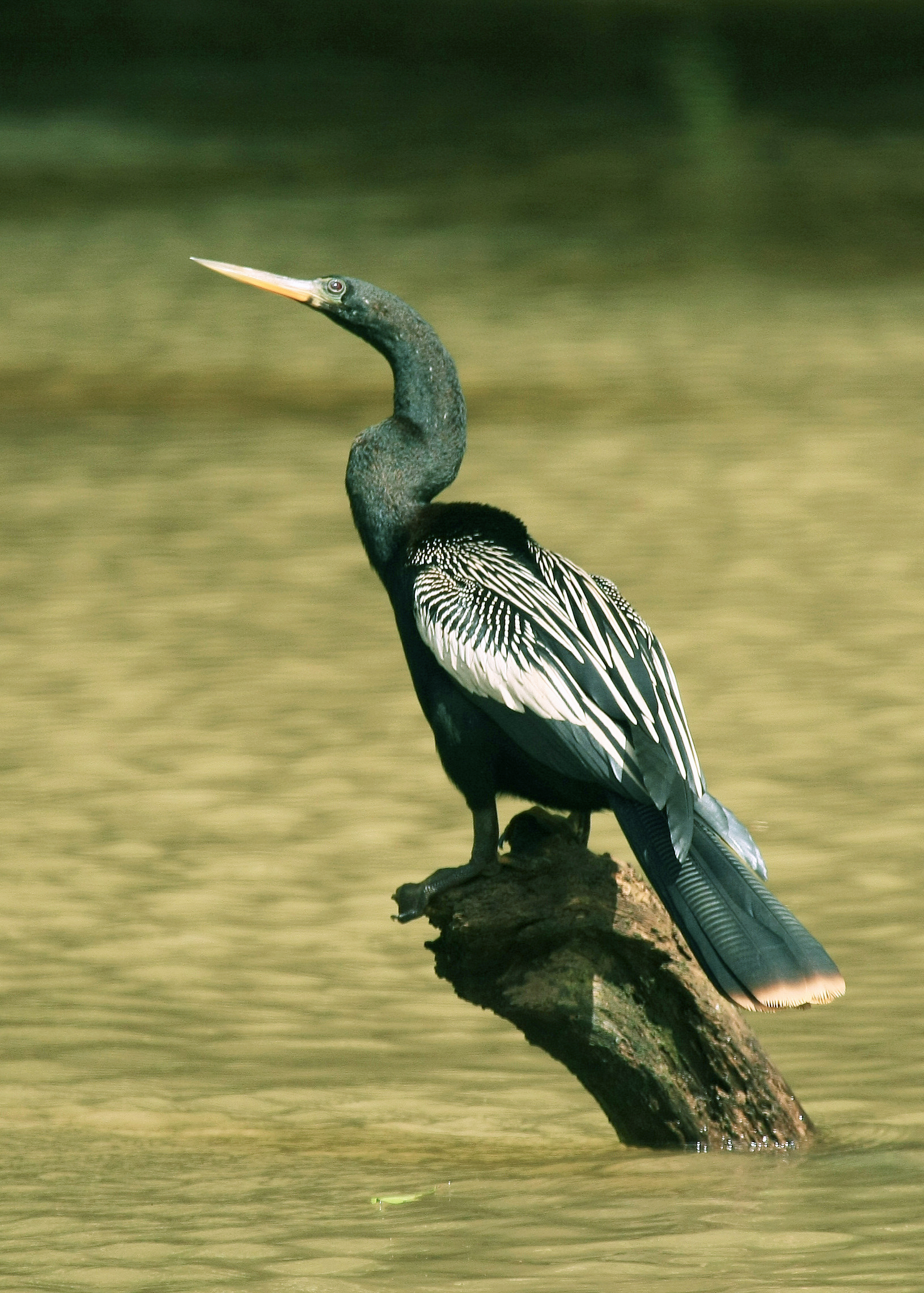 An Anhinga in Costa Rica.